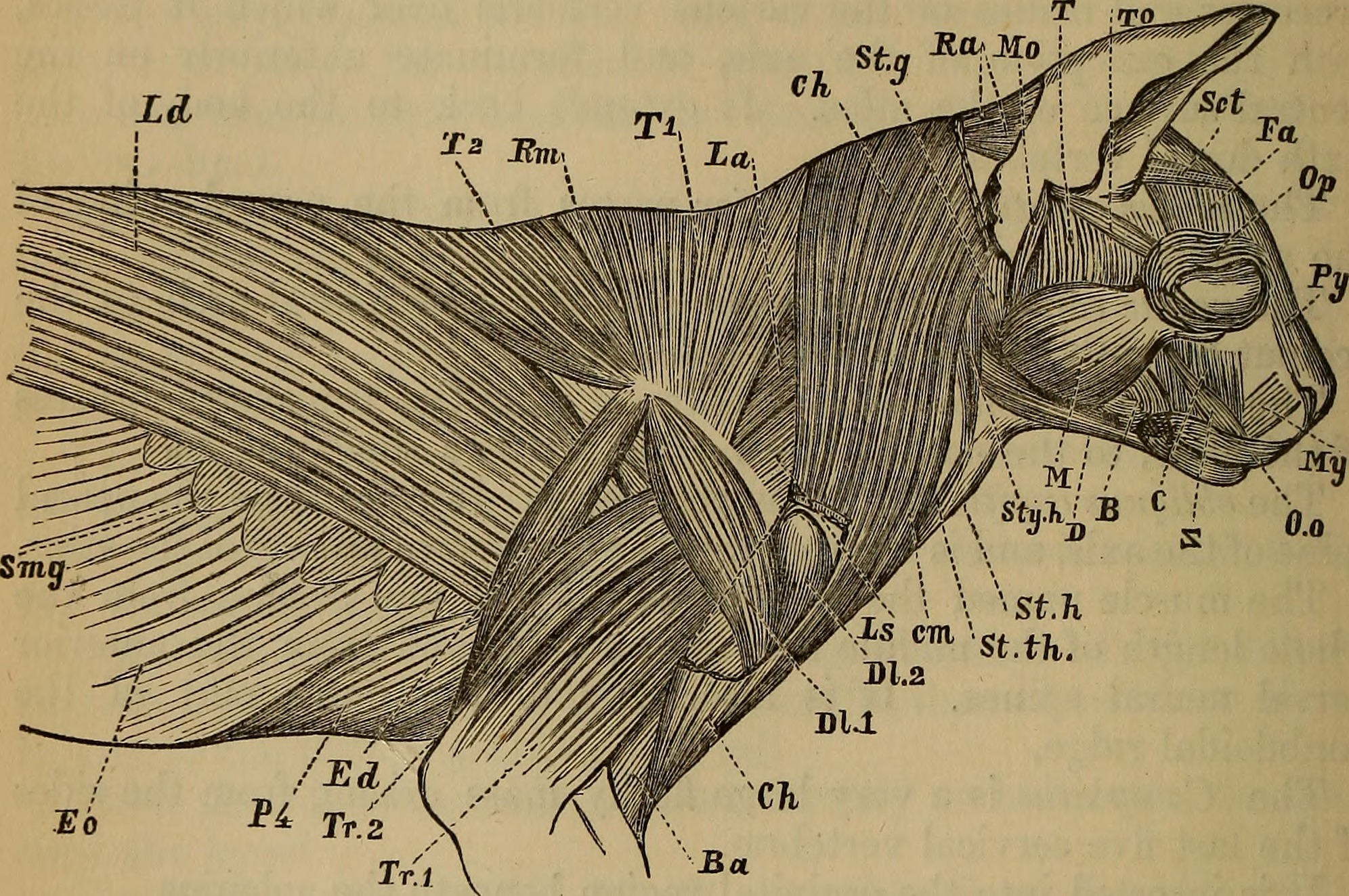 Title: The cat : an introduction to the study of backboned animals, especially mammals Year: 1881 (1880s) Authors: Mivart, St. George Jackson, 1827-1900 Subjects: Cats; Anatomy, Comparative Publisher: New York : Scribner's Text Appearing Before Image: 136 TEE CAT. (CHAP. v. The muscles of the pharynx arid palate effect deglutition. As soon as any portion of food, or other object, is grasped by the superior muscle of the pharynx, its fibres and those of the lower pharyngeal muscles successively contract, so as to drive the sub- stance so grasped backwards towards the stomach. MUSCLES OF THE TRUNK AND TAIL. § 8. The muscles of the back are arranged in successive layers. Text Appearing After Image: Fig. 77.—Muscles of Right Side of Fore-quarter. A rectangular cdt being made in the CEPHALO-HUM.ERAL, TO SHOW MUSCLES BENEATH. B. Buccinator. Ba. Brachialis anticus. C. Levator anguli oris. Ch. Cephalo-humeral. Cm. Cleido-mastoid. Dl and D\ Two parts of deltoid. D. (Of head) digastric. Ed. External dorso-epitrochlear. Eo. External oblique. Fa. Fronto-auricular. La. Levator anguli scapulae. Ld. Latissimus dorsi. J.s. Levator scapulae. M. Masseter. Mo. Maxillo-auricular. My. Myrtiformis. Oo. Orbicularis oris. Op. Orbicularis palpebrarum. P4. Pectoralis. By. Pyramidalis. Ra. Retrahentes auriculam. Re. Rhomboideus capitis. Rm. Rhomboideus major. Smg. Serratus magnus. T. (Of head) temporal. T1 and Tz. Anterior and posterior parts of tra- pezius. Trl, Tr2. Parts of triceps. To. Temporo-auricular. Z. Zygomaticus. Set. Scutiform cartilage Sty. g. Stylo-glossus. Sty. h. Stylo-hyoid. St. hy. Sterno-hyoid. St. th. Sterno-thyroid. Some of them help to retain the shoulder and pelvic girdles (and therefore also the limbs) in place. The most superficial dorsal muscle is a cutaneous muscle—or one intimately connected with the skin. It is called the Panniculus carnosus, and is one of the largest muscles of the body. It forms a